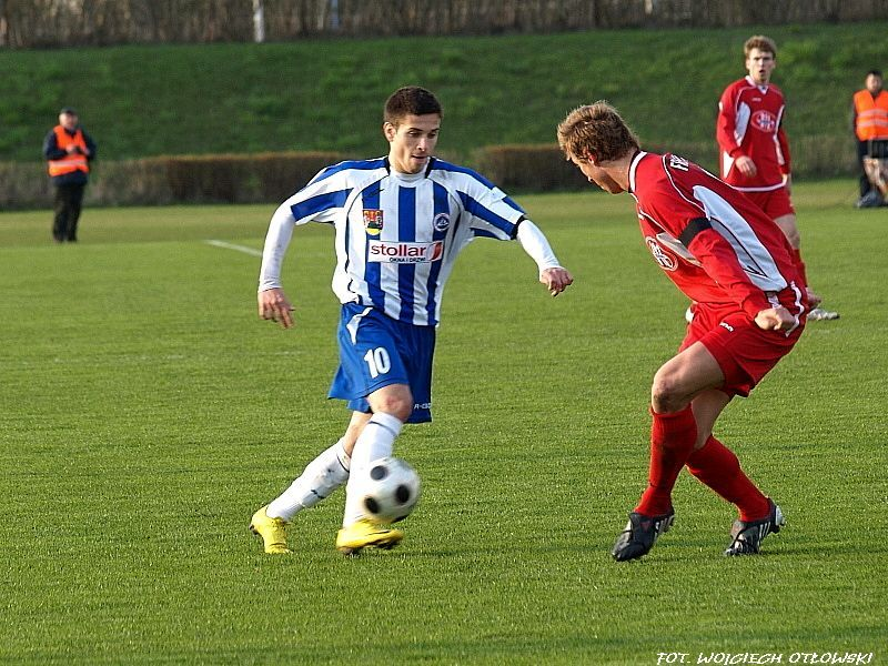 Wigry Suwałki against Freskovita - season 09/10. Wigry's player - Maciej Makuszewski.